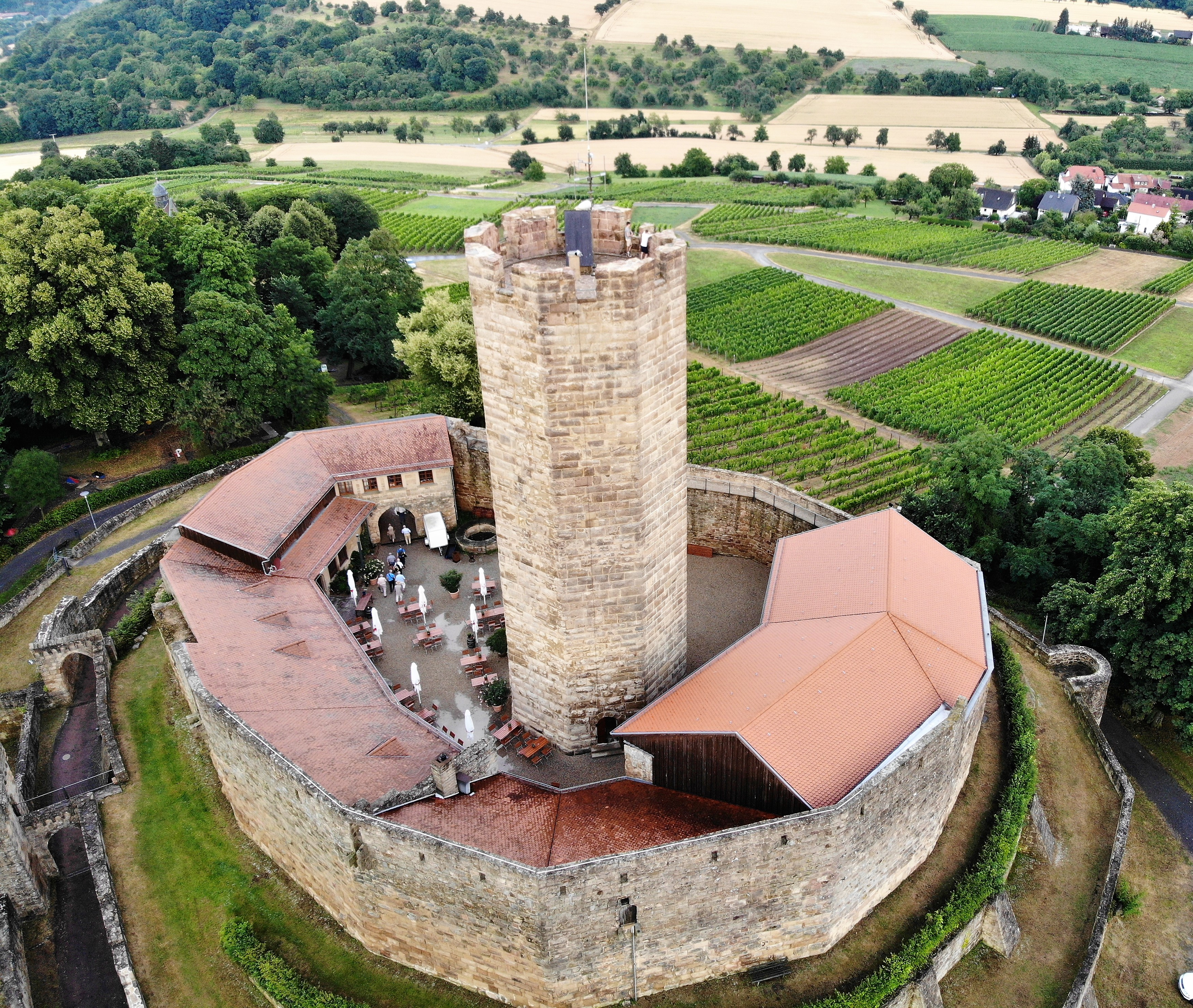 Burg Steinbergs is a medival castle from 1109. It is located at ♁49° 12′ 52″ N, 8° 52′ 38″ O near Sinsheim, Germany